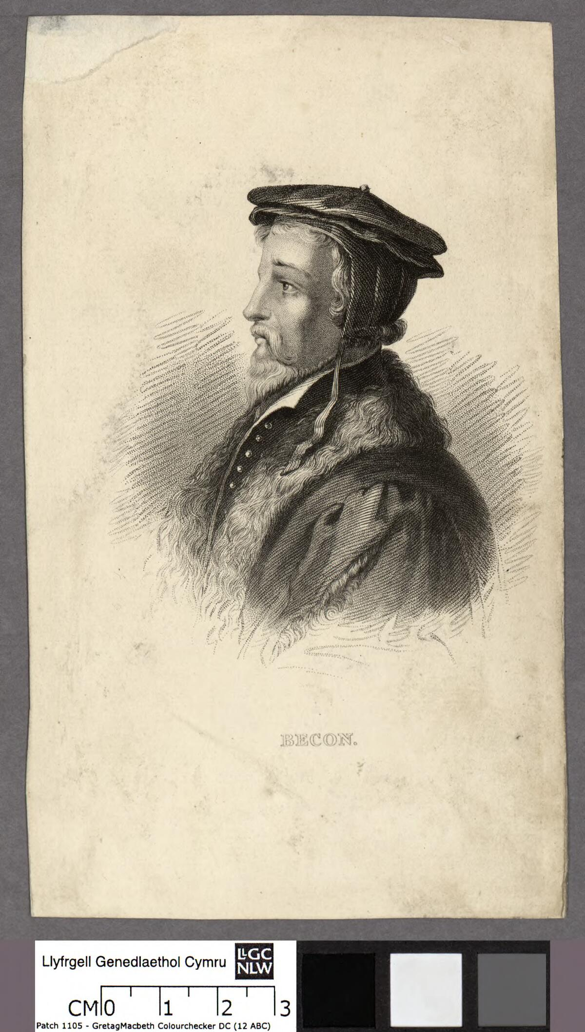 A portrait from the Welsh Portrait Collection at the National Library of Wales. Depicted person: John Becon – divine